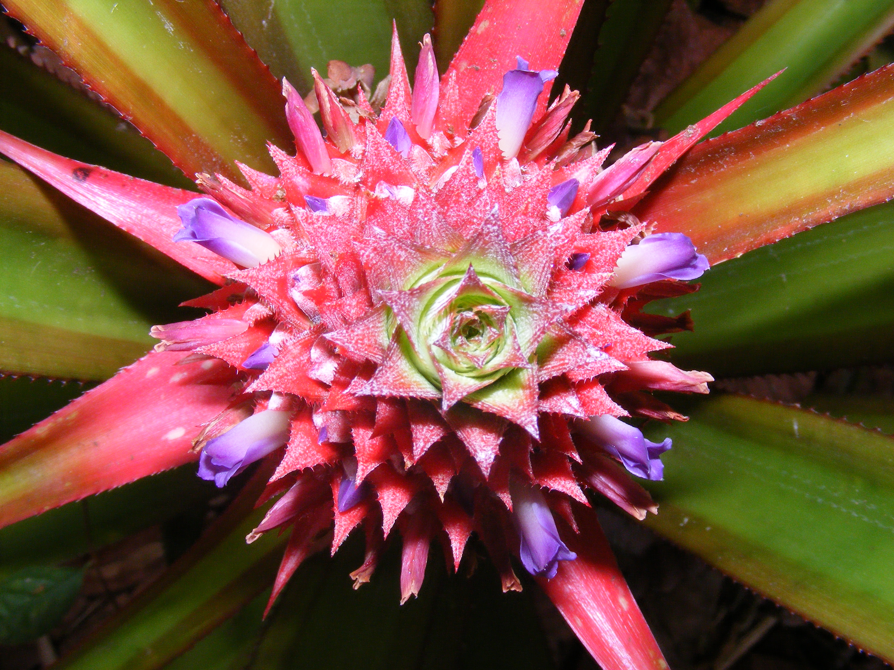 inflorescence with blue flowers of pineapple (Ananas comosus) in Thailand.